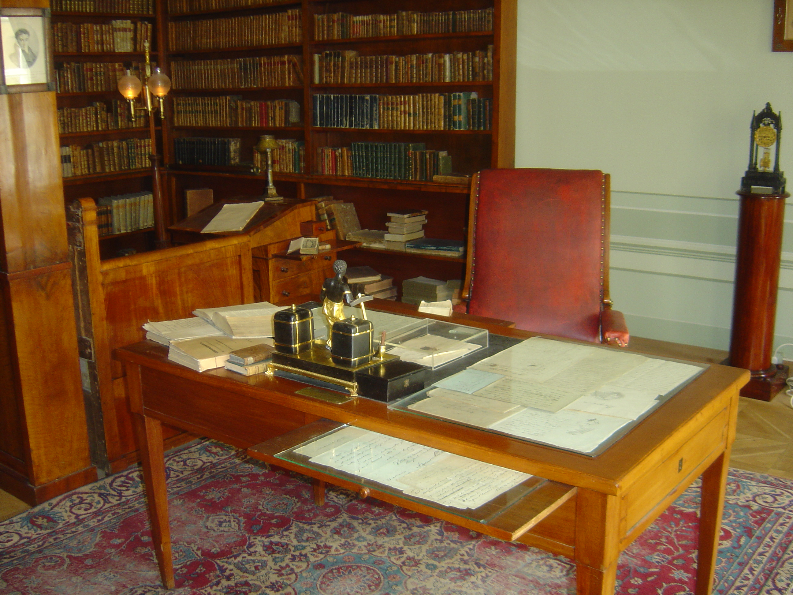 Puskhin House-Museum, the Poet's Study